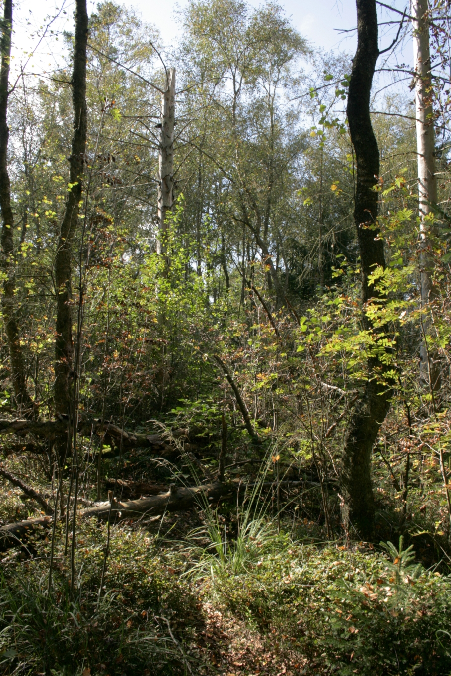 Draved Skov is one of the few Danish natural forests. This is an example of the ongoing decomposition in the forest.